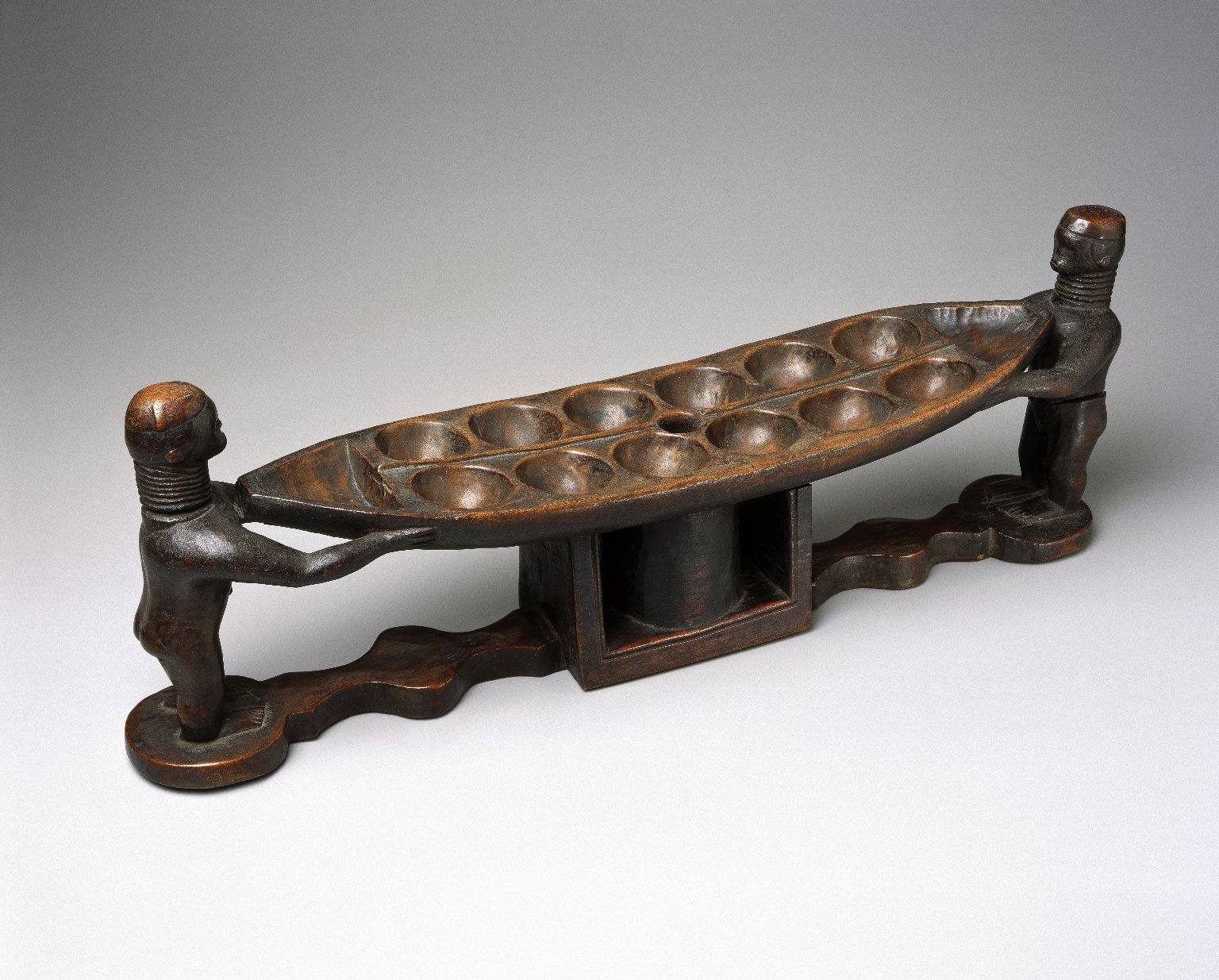 The object is a boat-shaped board with 12 playing cups and one triangular "capture" cup at either end. The playing area stands on a rectangular box which originally held playing seeds. The two ends are supported by a pair of male figures with ringed necks. The proper left leg of one of the figures is missing.